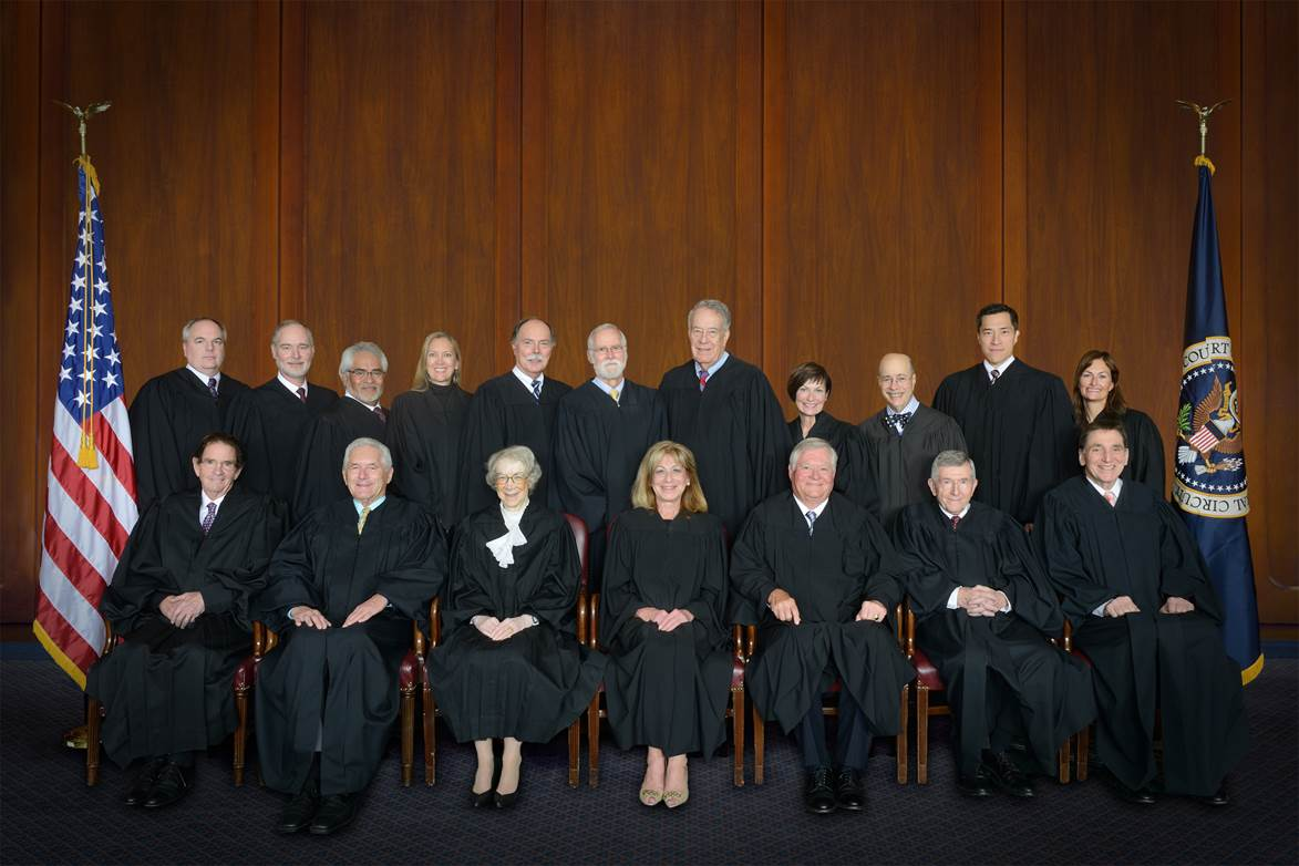 This is a picture of the active and senior judges of the Federal Circuit in early 2016